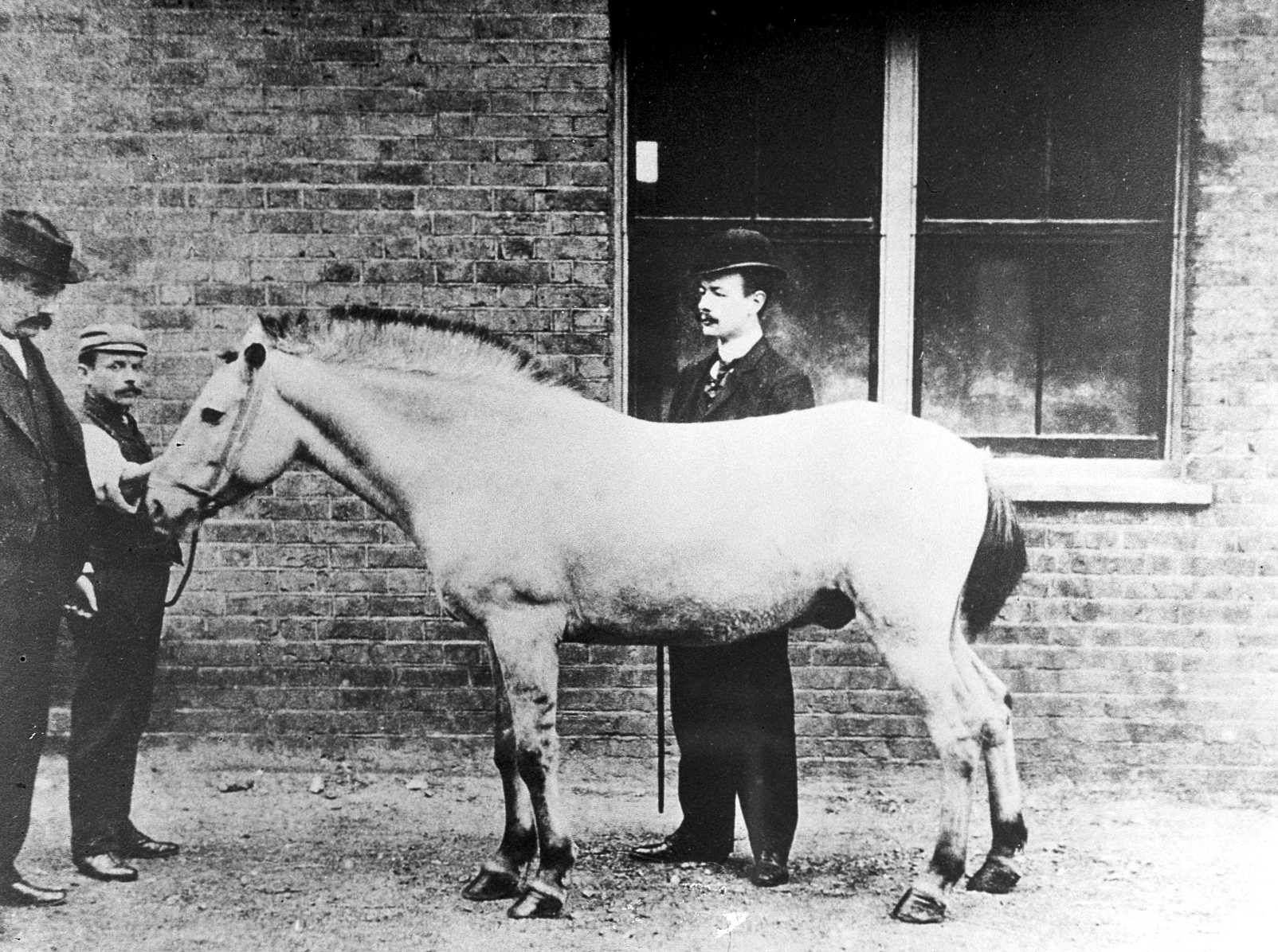 Tom, also known as Tommy first English pony innoculated for diphtheria antitoxine. Charles Sherrington wears a bowler hat, and Dr Marc Armand Ruffer stands by the pony's head. Archives & Manuscripts Keywords: Vaccination; Horses; Diphtheria; Lister Institute of Preventive Medicine; Tom